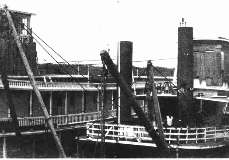 The S.S. Northcote after the battle at Batoche during the Northwest Resistance of 1885. The S.S. Marquis is in the background.